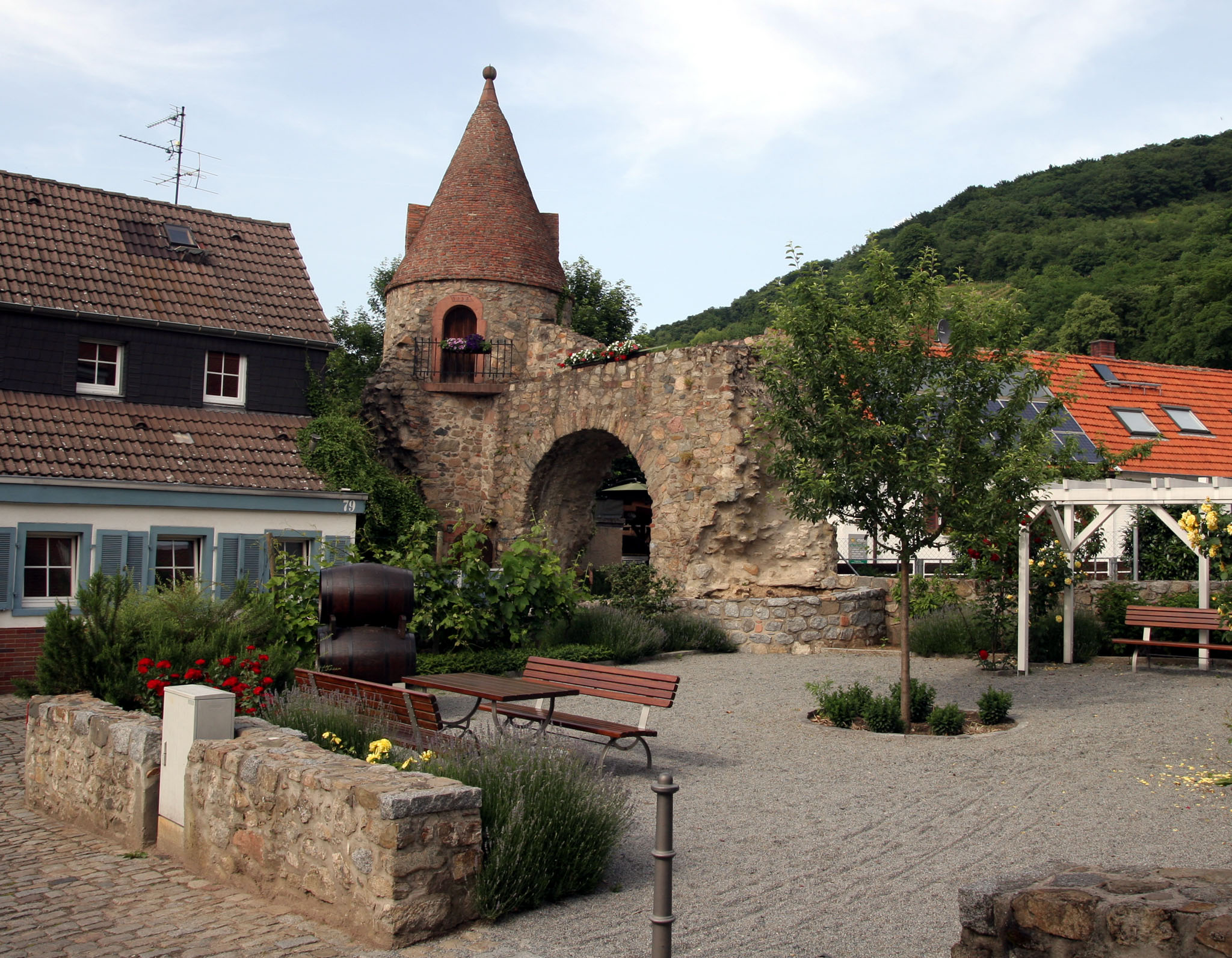 The Aul, remains of the former fortification of Zwingenberg (Hesse, Germany).